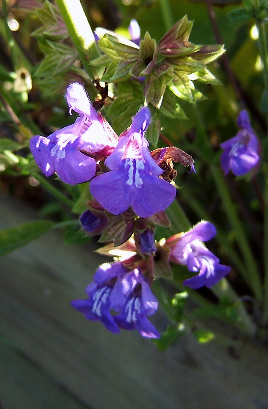 Sage